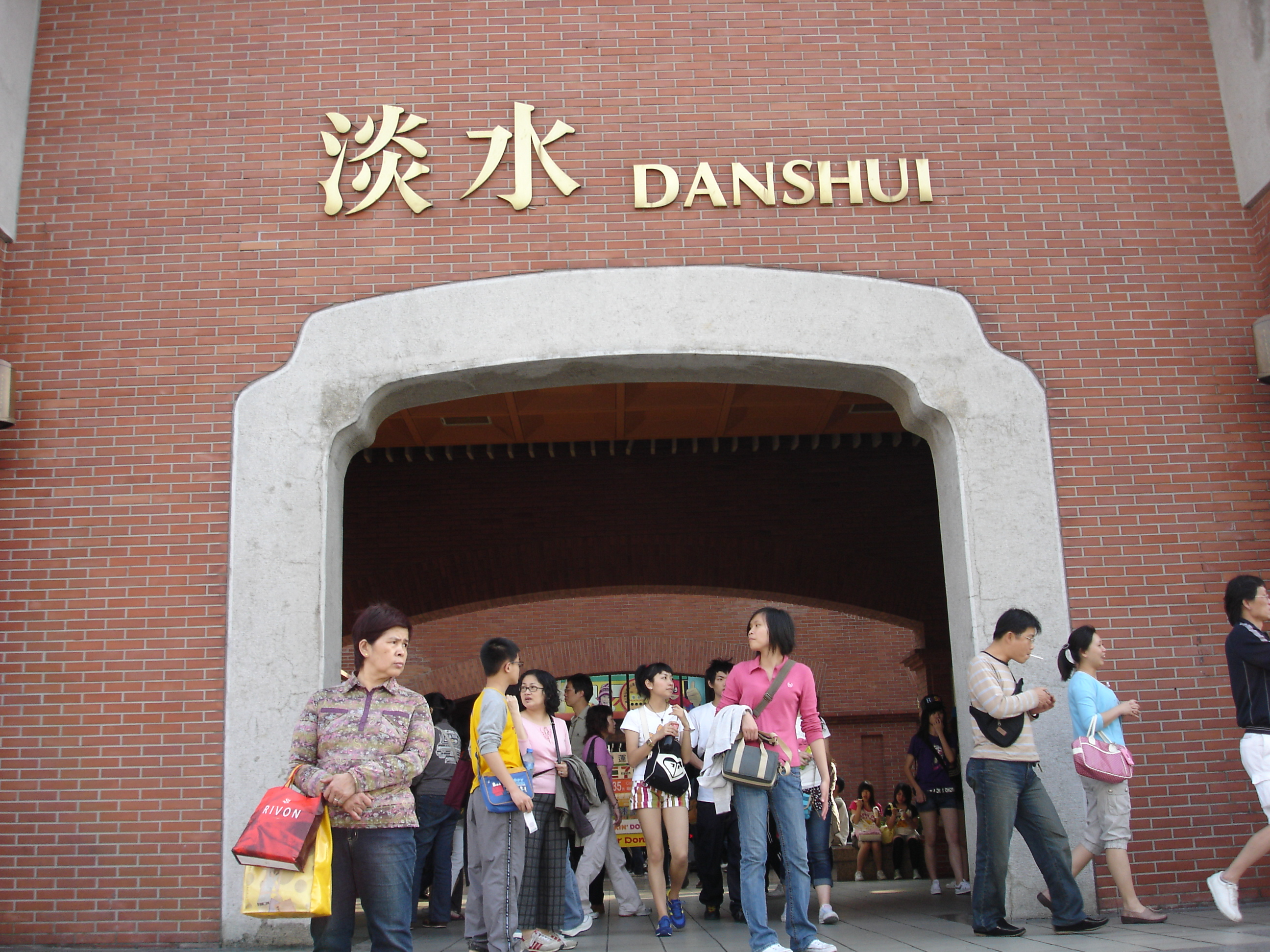 The MRT Tamsui Station.